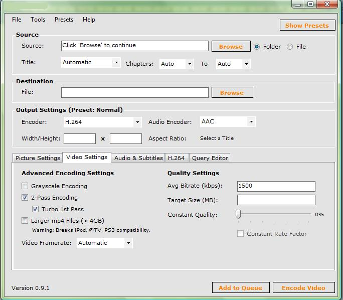 A screenshot of a DVD converter that is released with the GNU GPL license